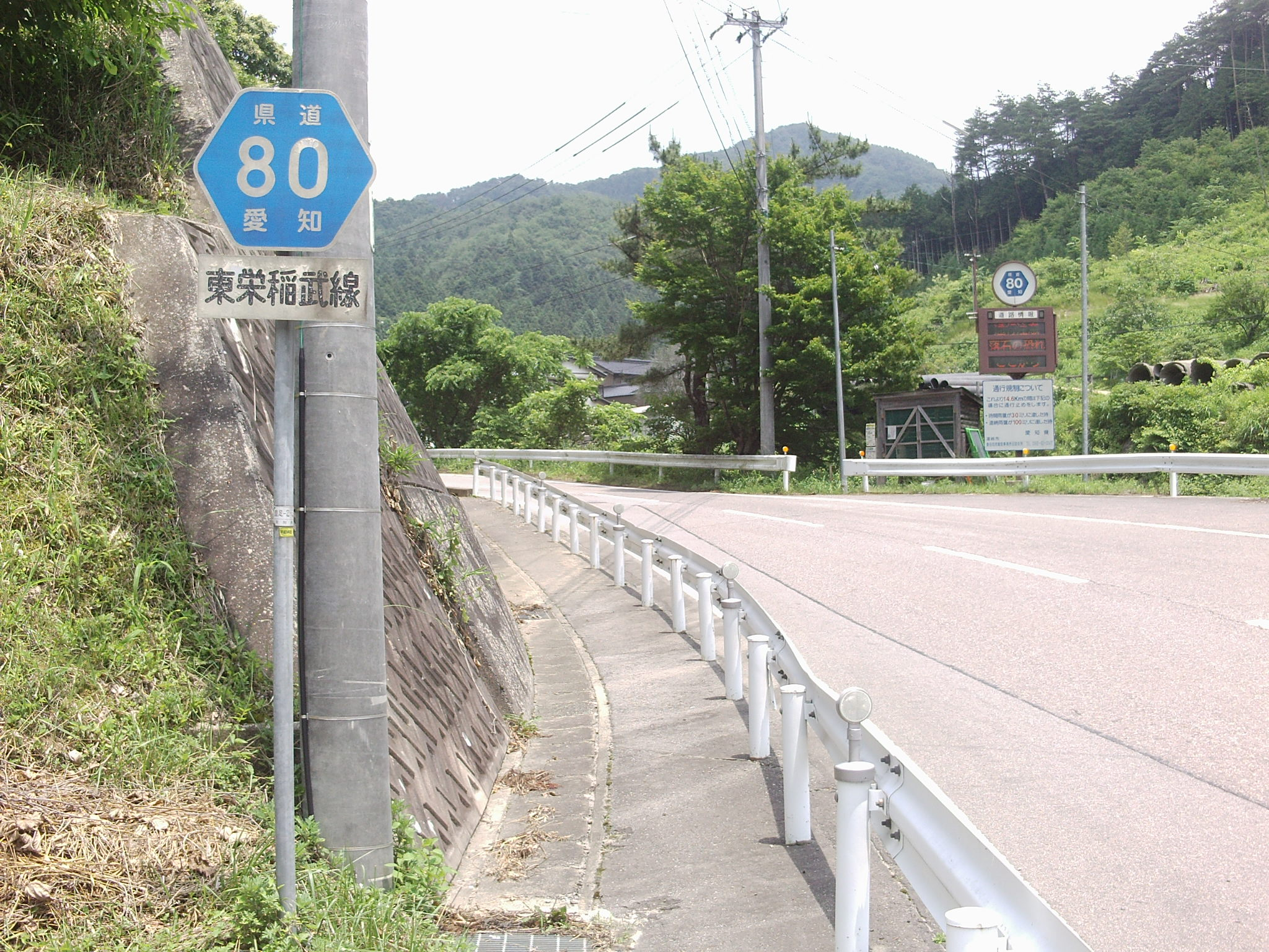 Aichi prefectural road No.80 in Inabucho, Toyota, Aichi.